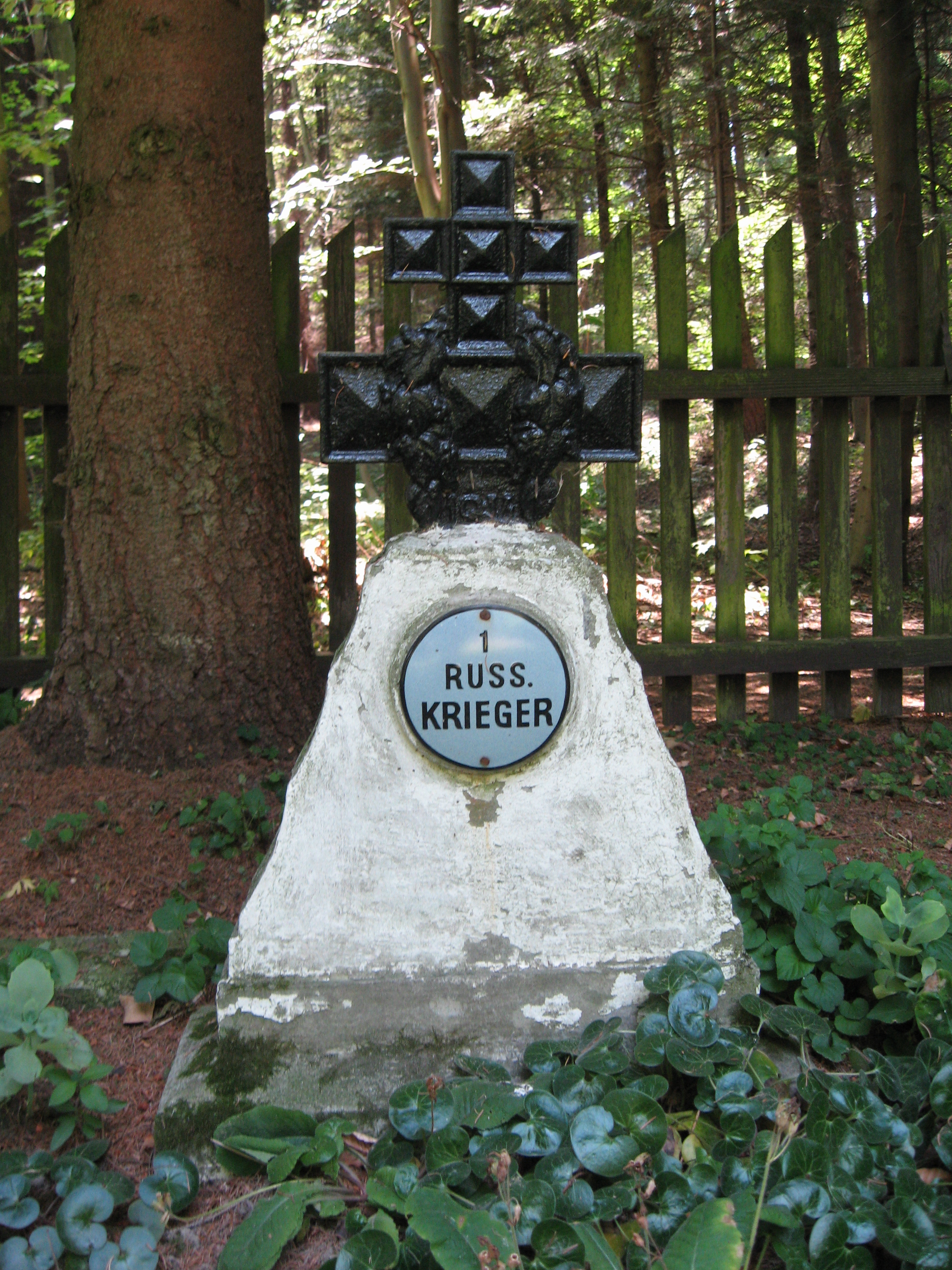 WWI Military Cemetery no.158 Poland, Tuchow